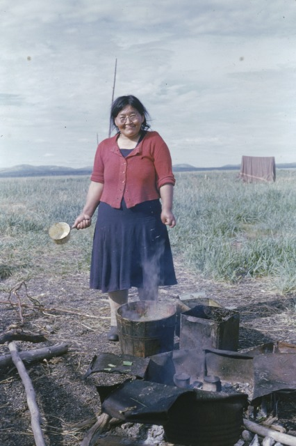 Della Keats lived a traditional subsistence lifestyle and learned anatomy, working to bring babies into the world for 30 years.